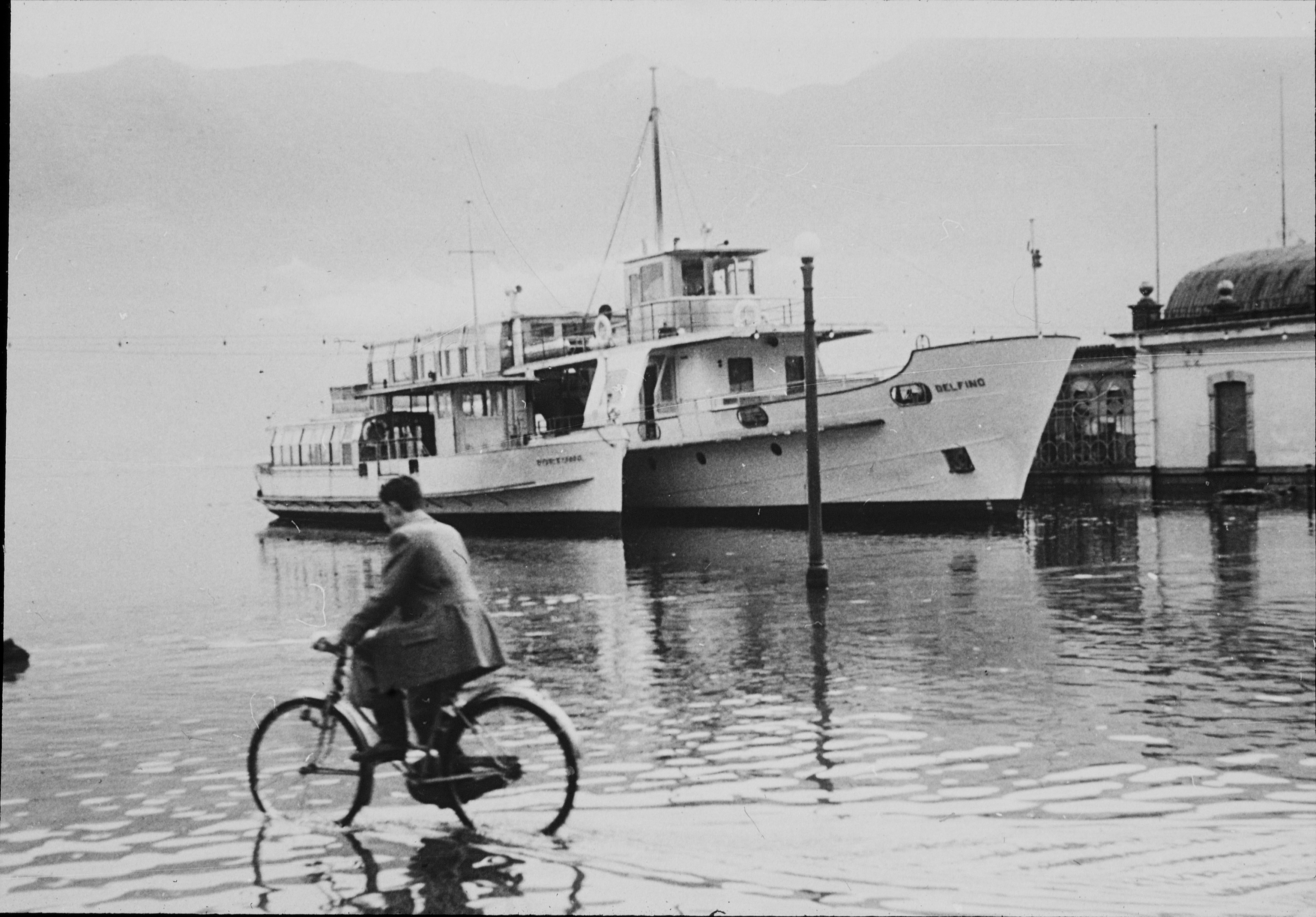 M/N "Fortuna" and M/N "Delfino" in Locarno.